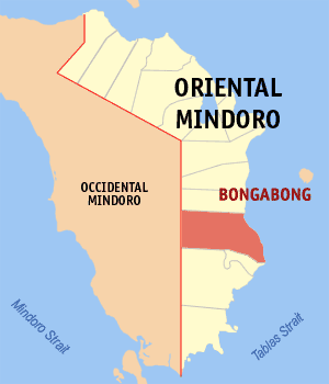 Map of Oriental Mindoro showing the location of Bongabong